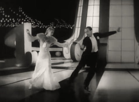 Ginger Rogers & Fred Astaire in Follow the Fleet - trailer (cropped screenshot)